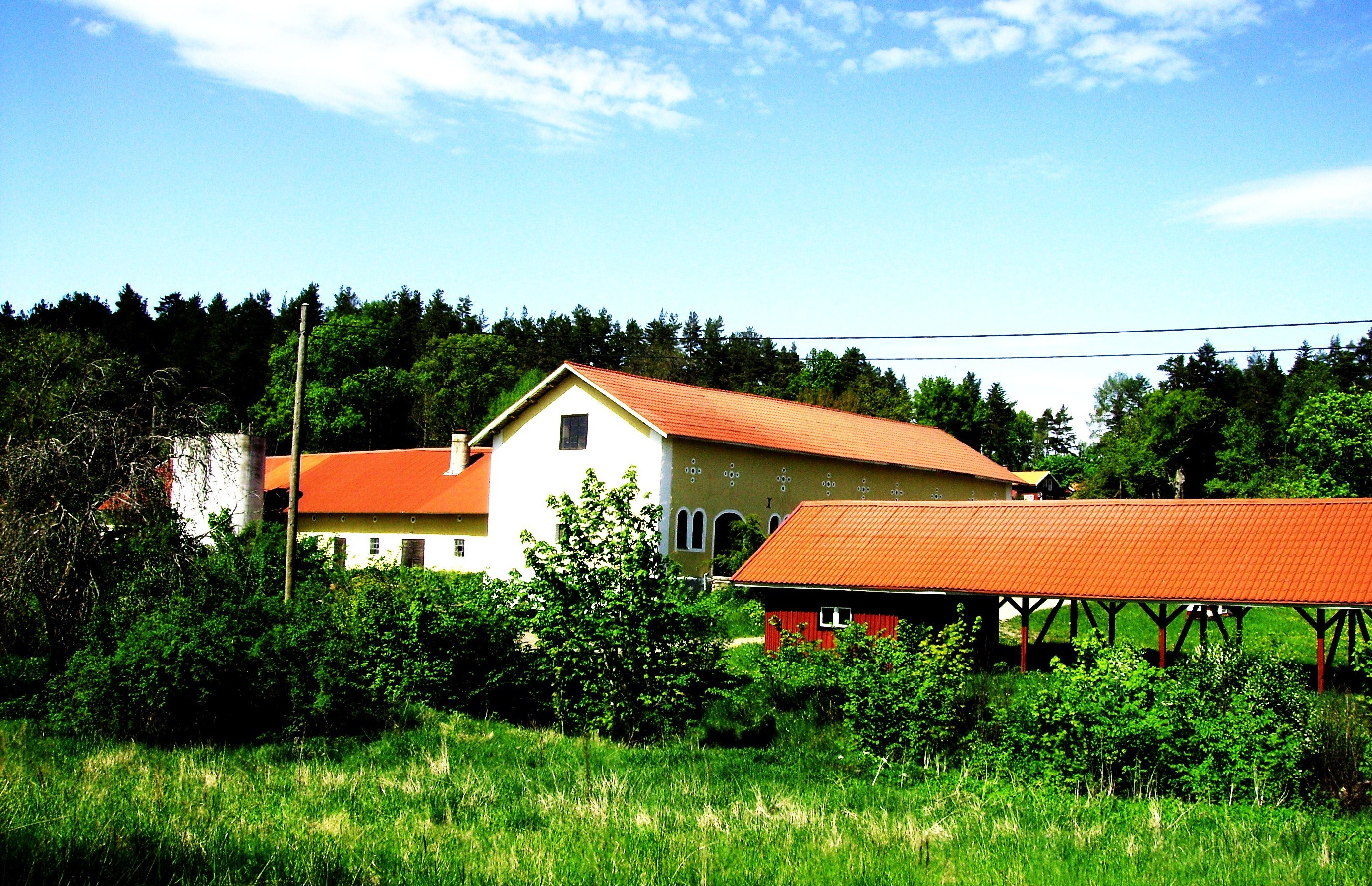 Picture of Ehrendal in Gnesta